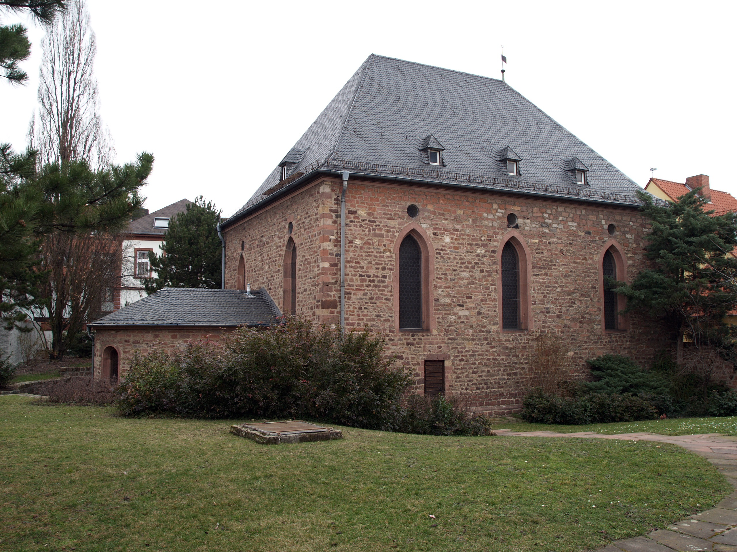 Outer view of the Men's Synagogue in Worms (Germany), the Raschi-Schul, a former yeshiva, is the appendix of the Men's Synagogue